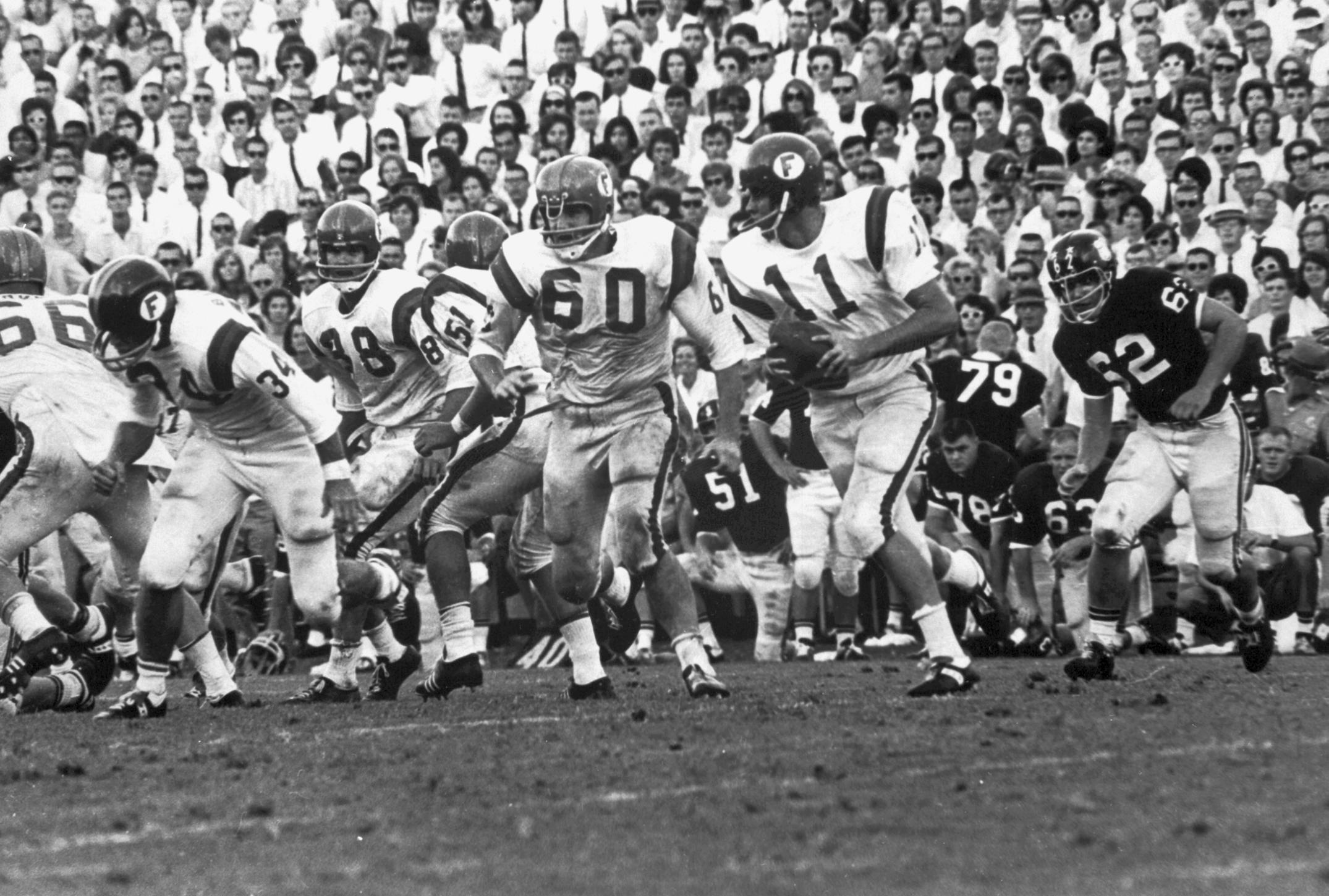 Steve Spurrier, University of Florida quarterback, Heisman Trophy Winner, #11